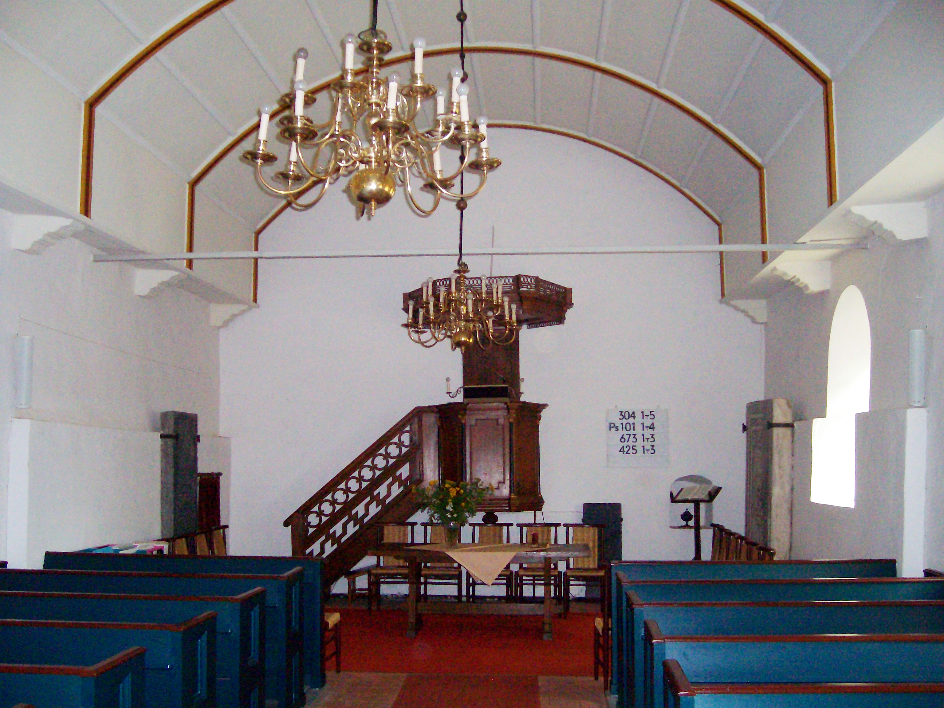 Historic church in Vellage, East Frisia, Germany